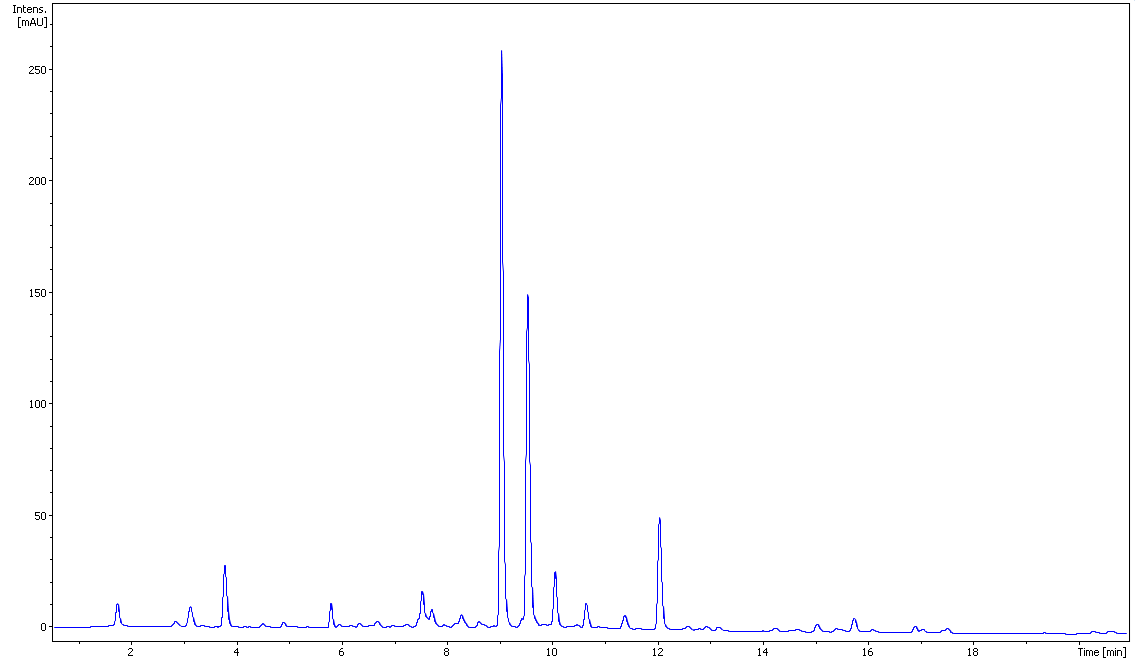 Green tea UV 280 nm spectrum